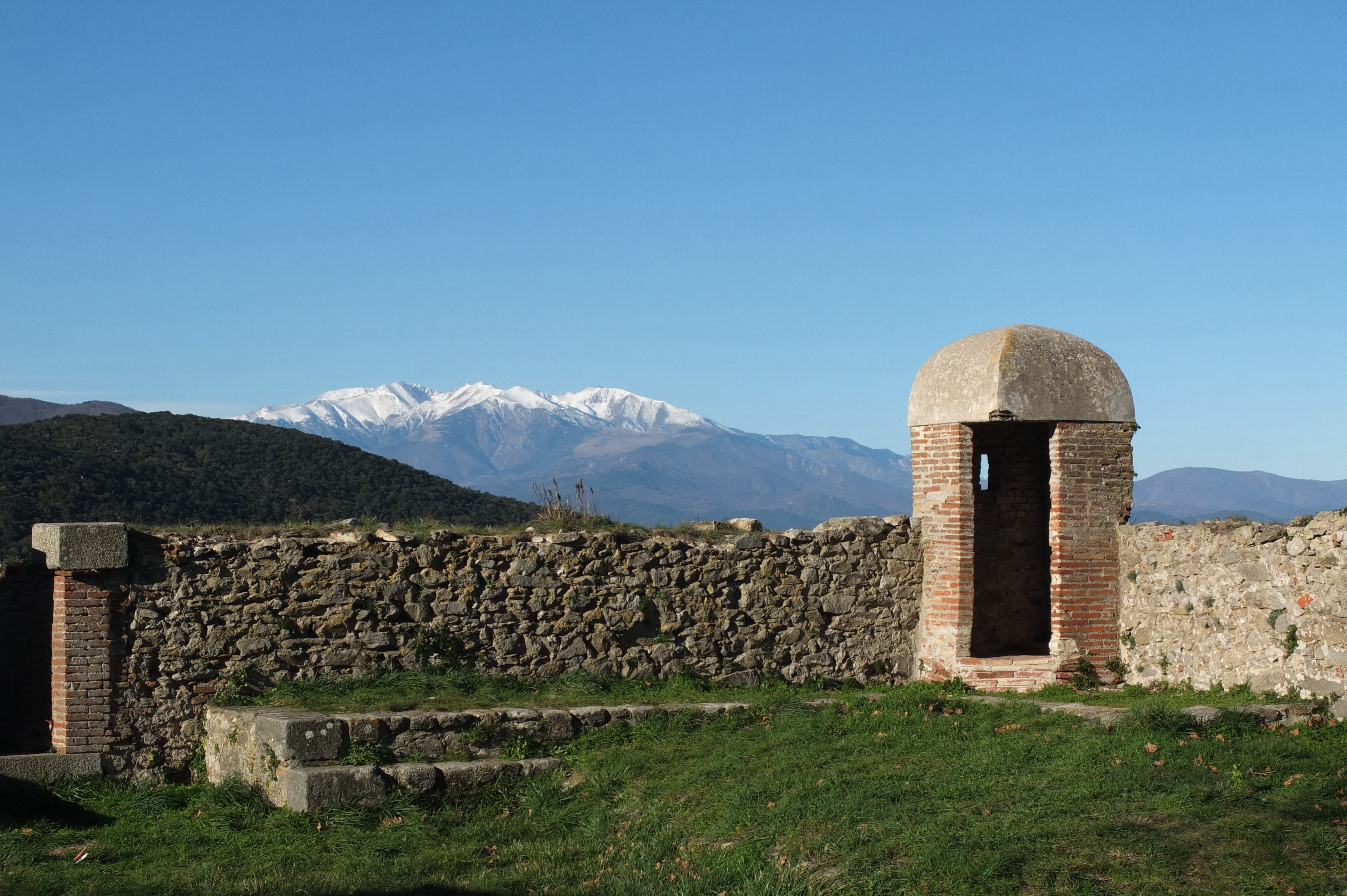 Bartizan of Fort de Bellegarde, near Le Perthus, France, the Canigou in the background.